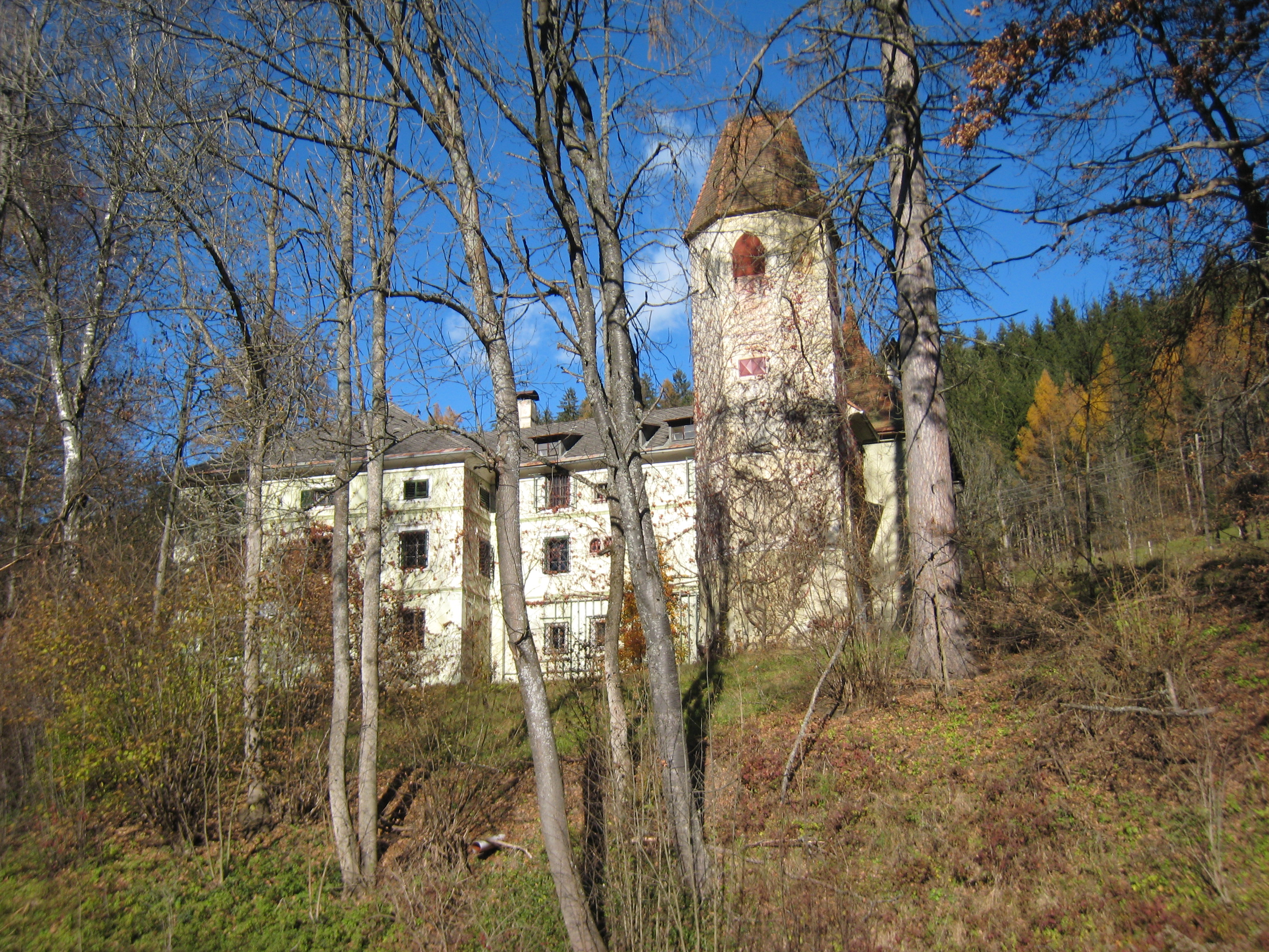 Castle Bodenhof, Sankt Stefan im Gailtal, Carinthia, Austria